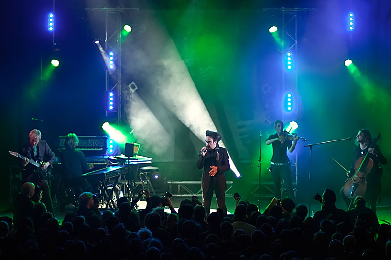 Deine Lakaien on Stage in Werk II Leipzig, Oktober 2010